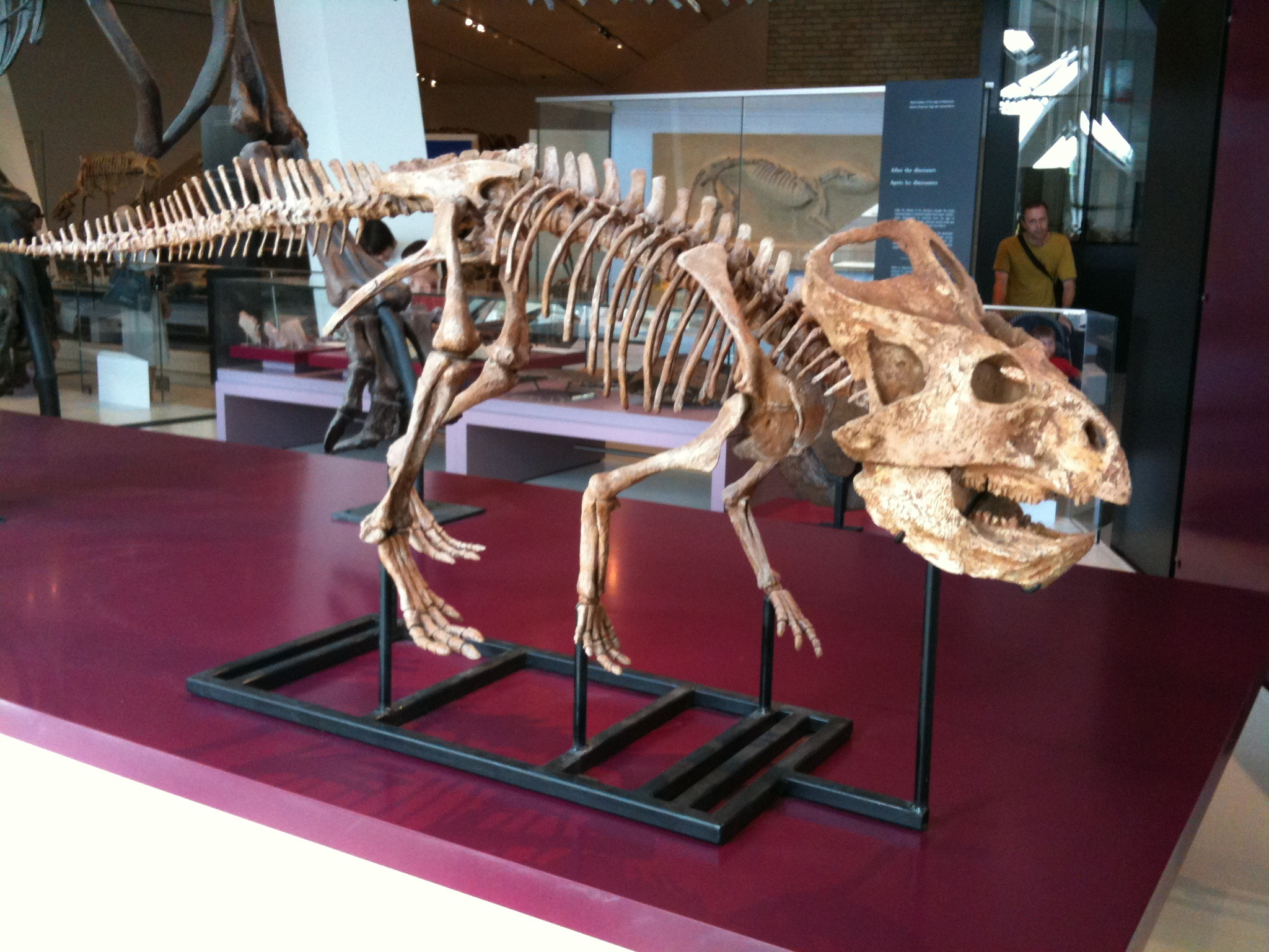 Protoceratops skeleton at the Royal Ontario Museum.